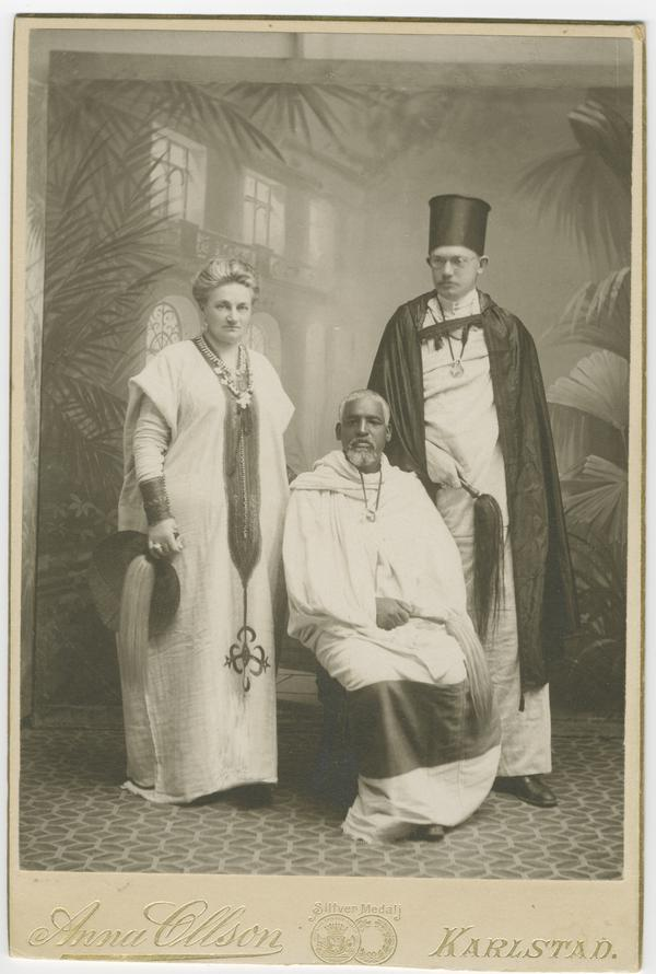 Johannes Axel Kolmodin with wife Sophie Wallin och missionary Twoldo Medtren from Ethiopia in Abyssinian costume.